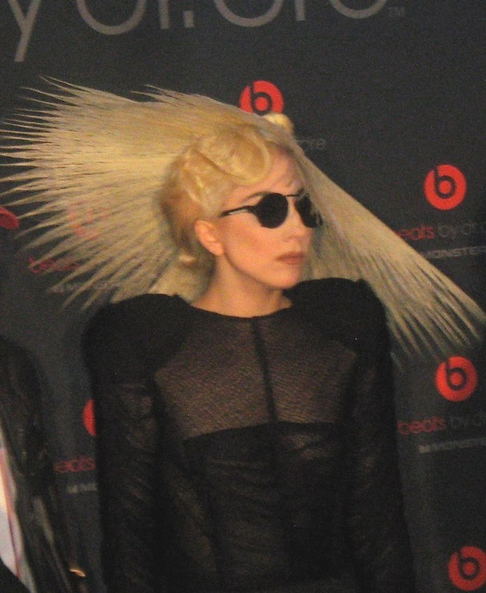 Lady Gaga announces the new Red Headphones from Monster. CES 2010 Las Vegas, NV (CC) Philip Nelson, Feel free to use this picture. Please credit as shown.